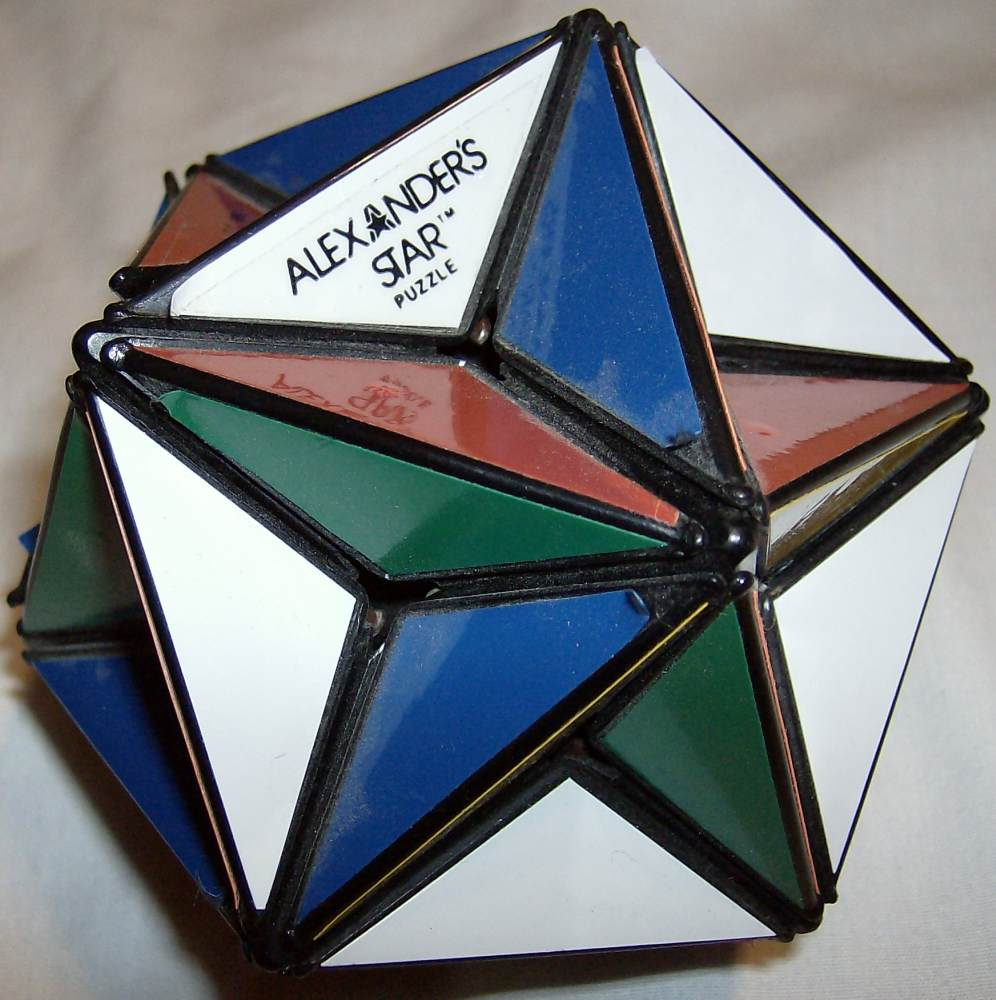 Took the photo myself.